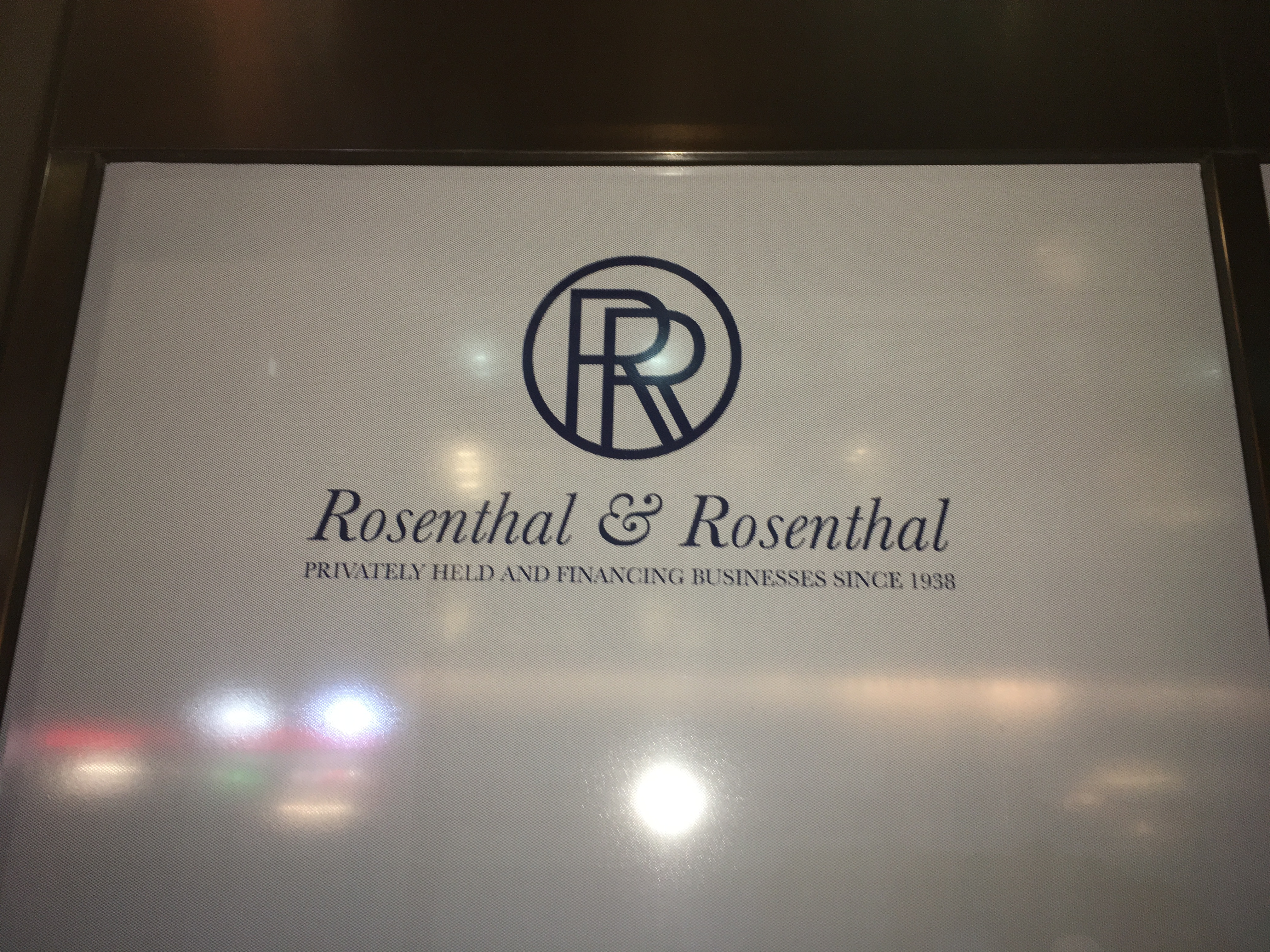 plaque for Rosenthal and Rosenthal private bank in New York City, New York, USA